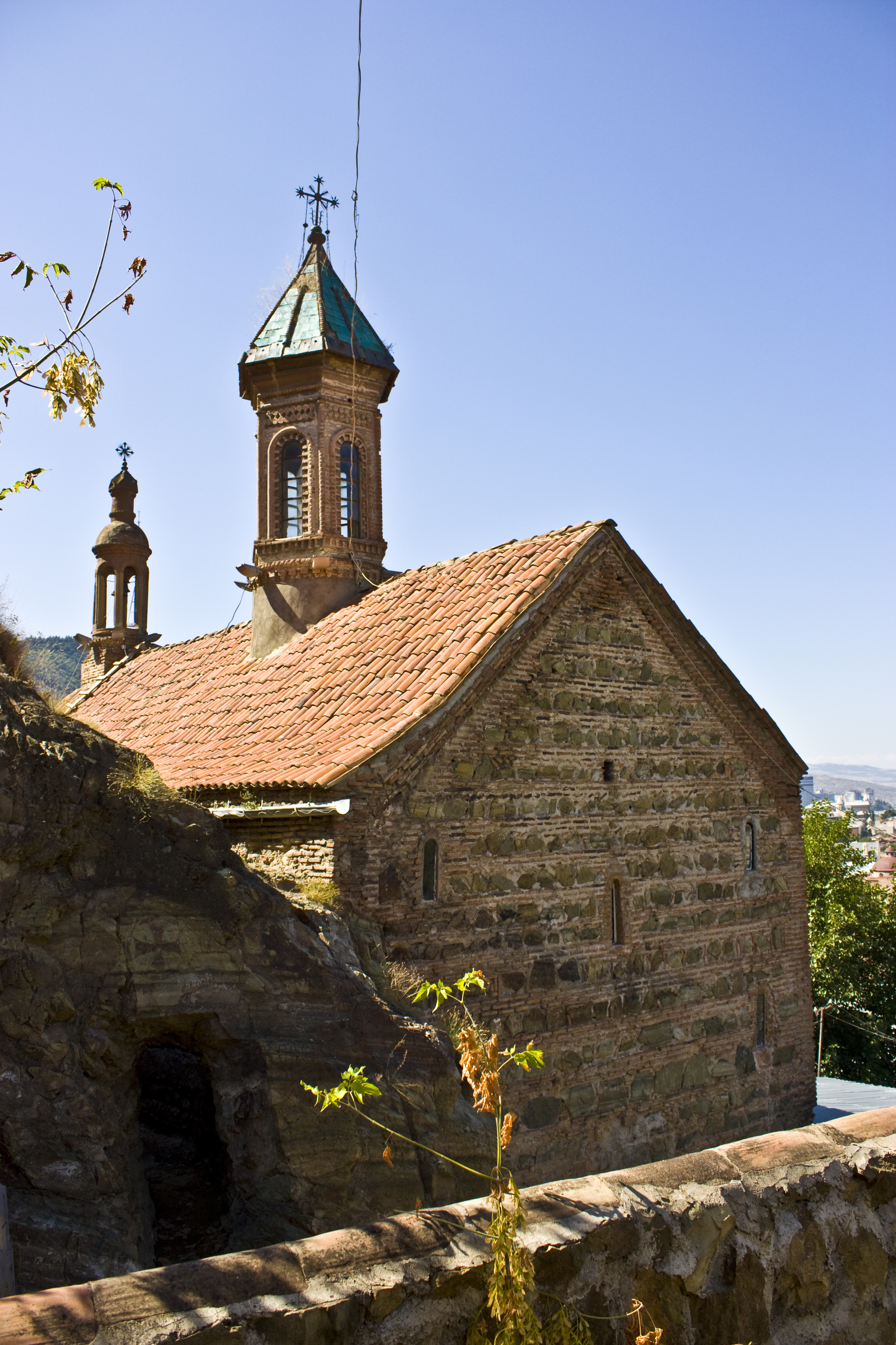 The church of St. George, belonging to the Georgian Orthodox Church, built by Armenians in 18-th century.